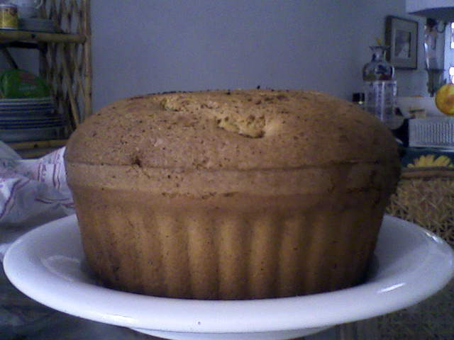 Photography of a bizcochuelo (a kind of cake).